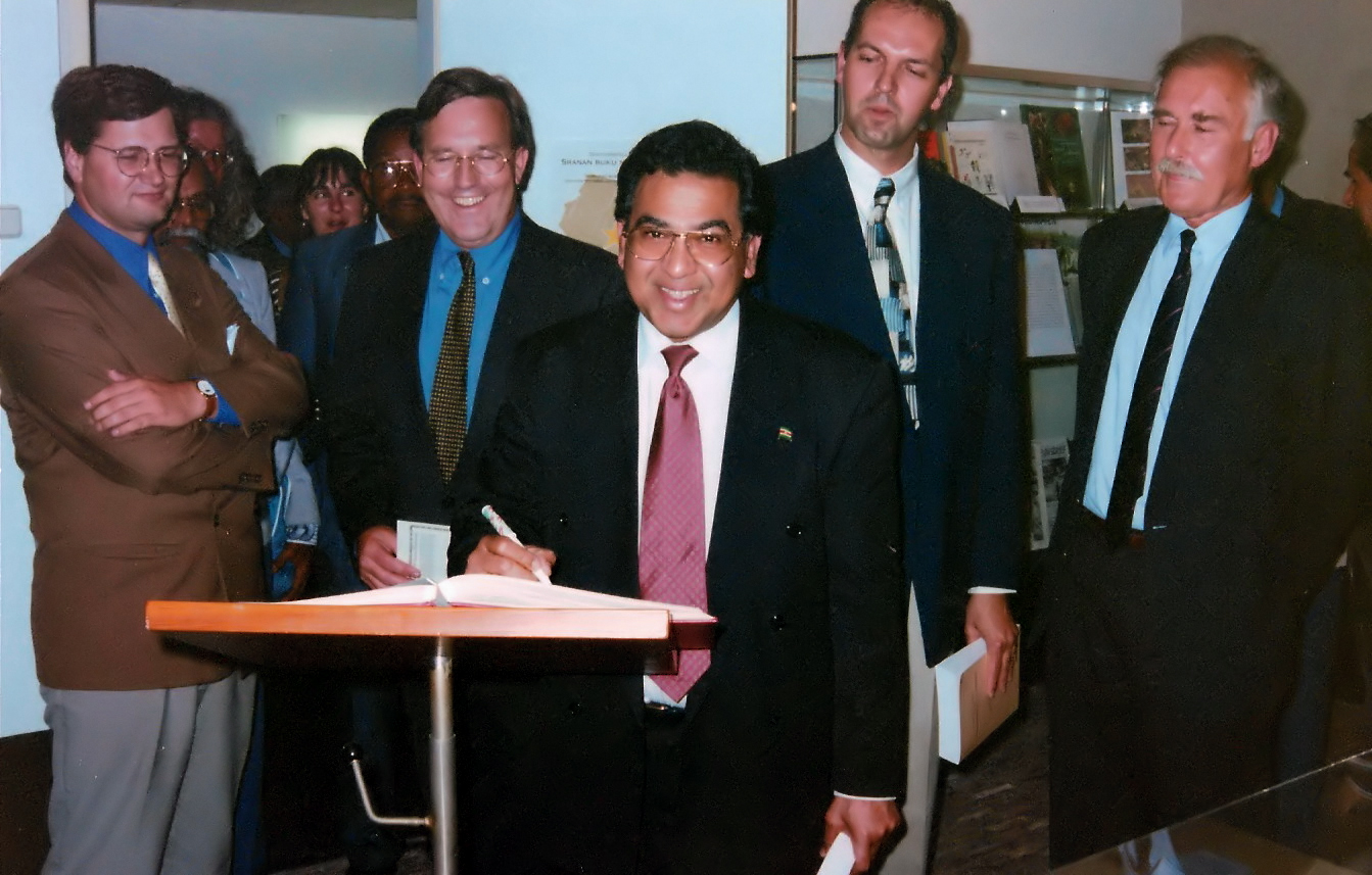 Surinamese ambassador Evert Azimullah, signing the guests' book at the occasion of the publication of the Suriname-catalogue of the University Library of Amsterdam, handed over by authors Michiel van Kempen and Kees van Doorne to the ambassador of the Republic of Suriname, June 16th 1995, Amsterdam. From left: Jan Peter Balkenende (later to become the prime minister of the Netherlands, Norbert van den Berg (director of the library), ambassador Azimullah, writer Michiel van Kempen and Ton Croiset van Uchelen, head librarian.